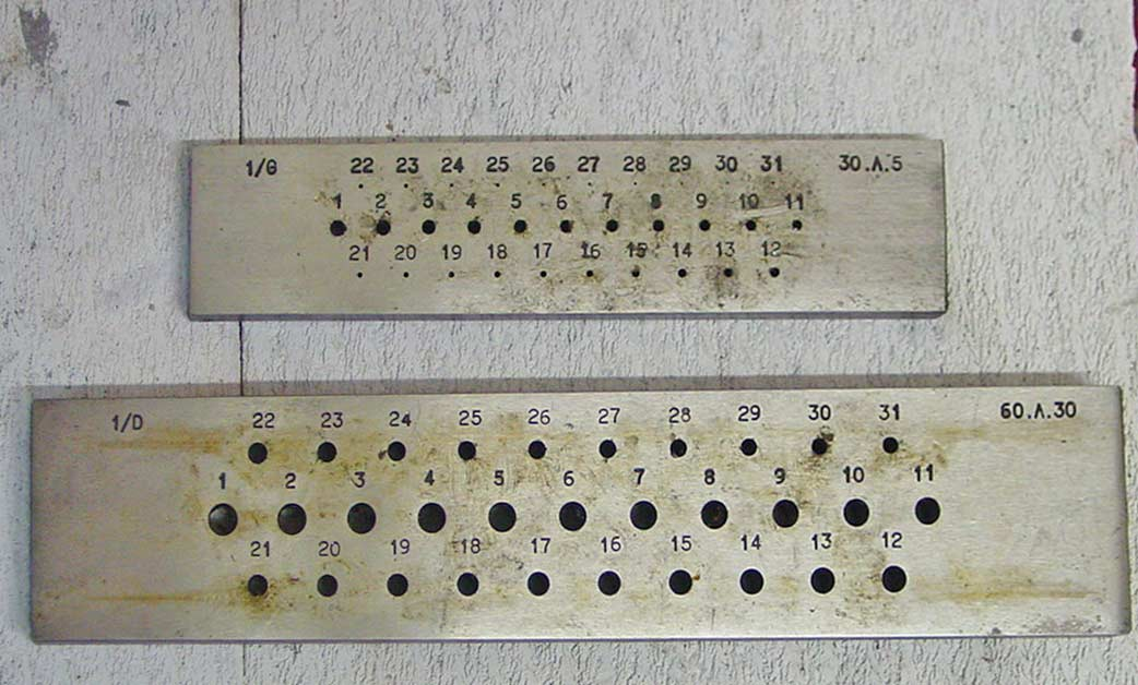 Two drawplates, the upper one for drawing from 3 to 0.5 mm and the lower one for 6 to 3 mm wire diameter.